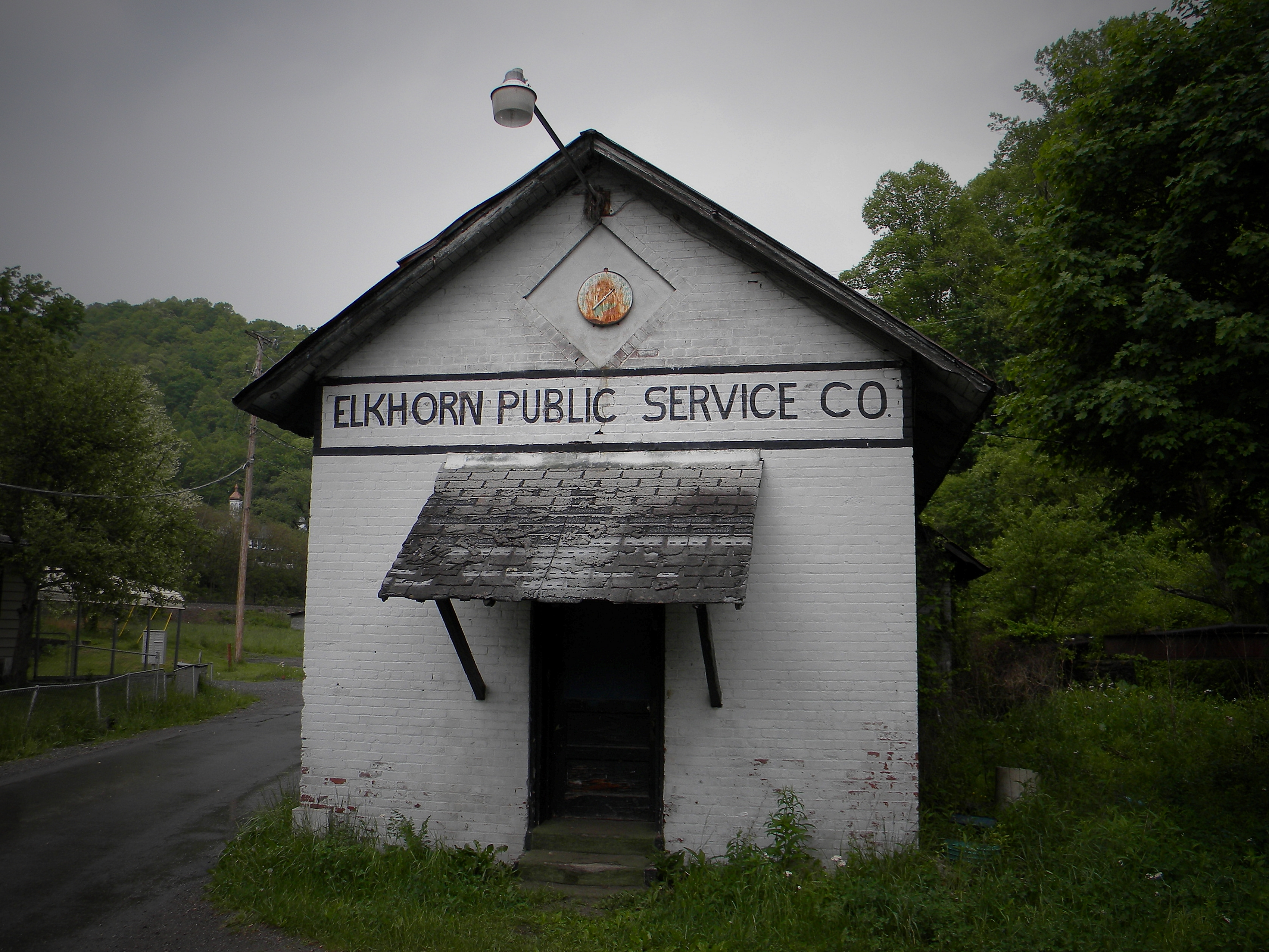 Elkhorn WV Public Service Building